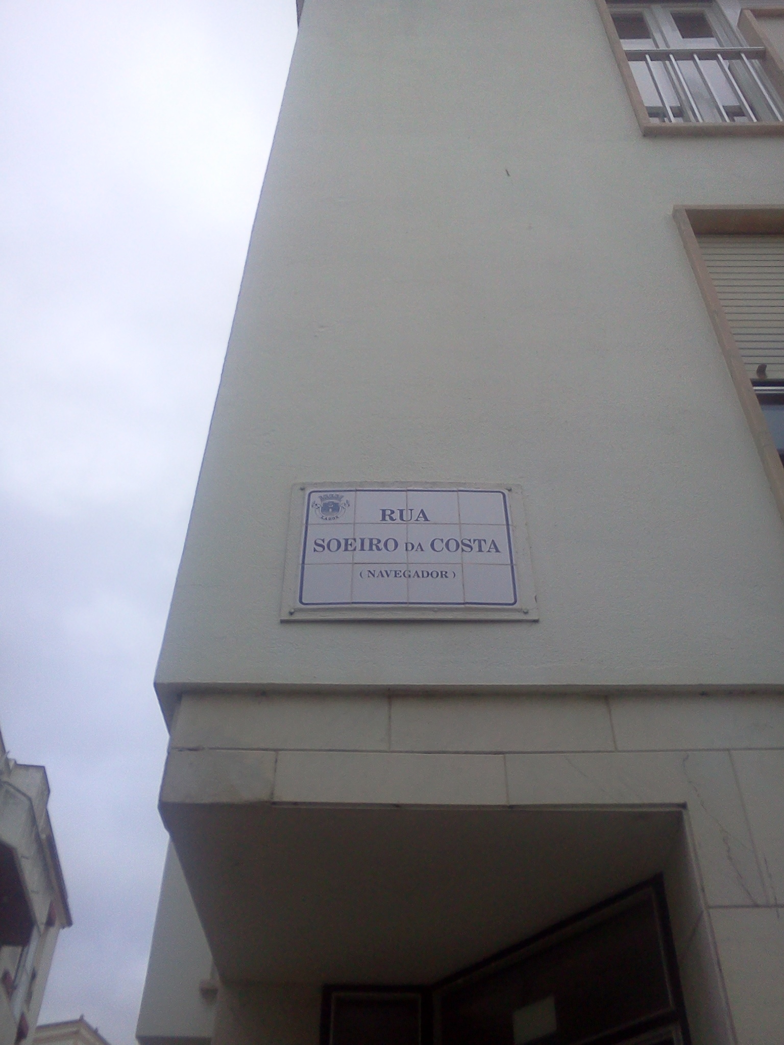 Street sign of Rua Soeiro da Costa, in the city of Lagos, in southern Portugal.